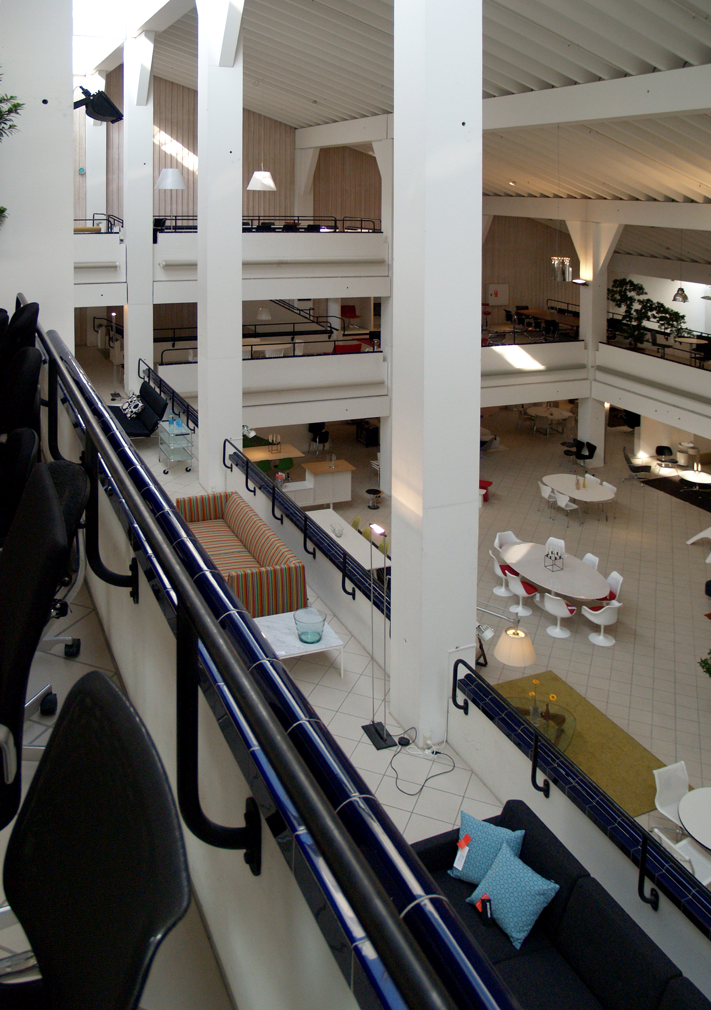 Paustian House, Copenhagen. Architect: Jørn Utzon. The balconies' concrete sides are extremely low to secure visual contact between the floors, hence the steel railings.